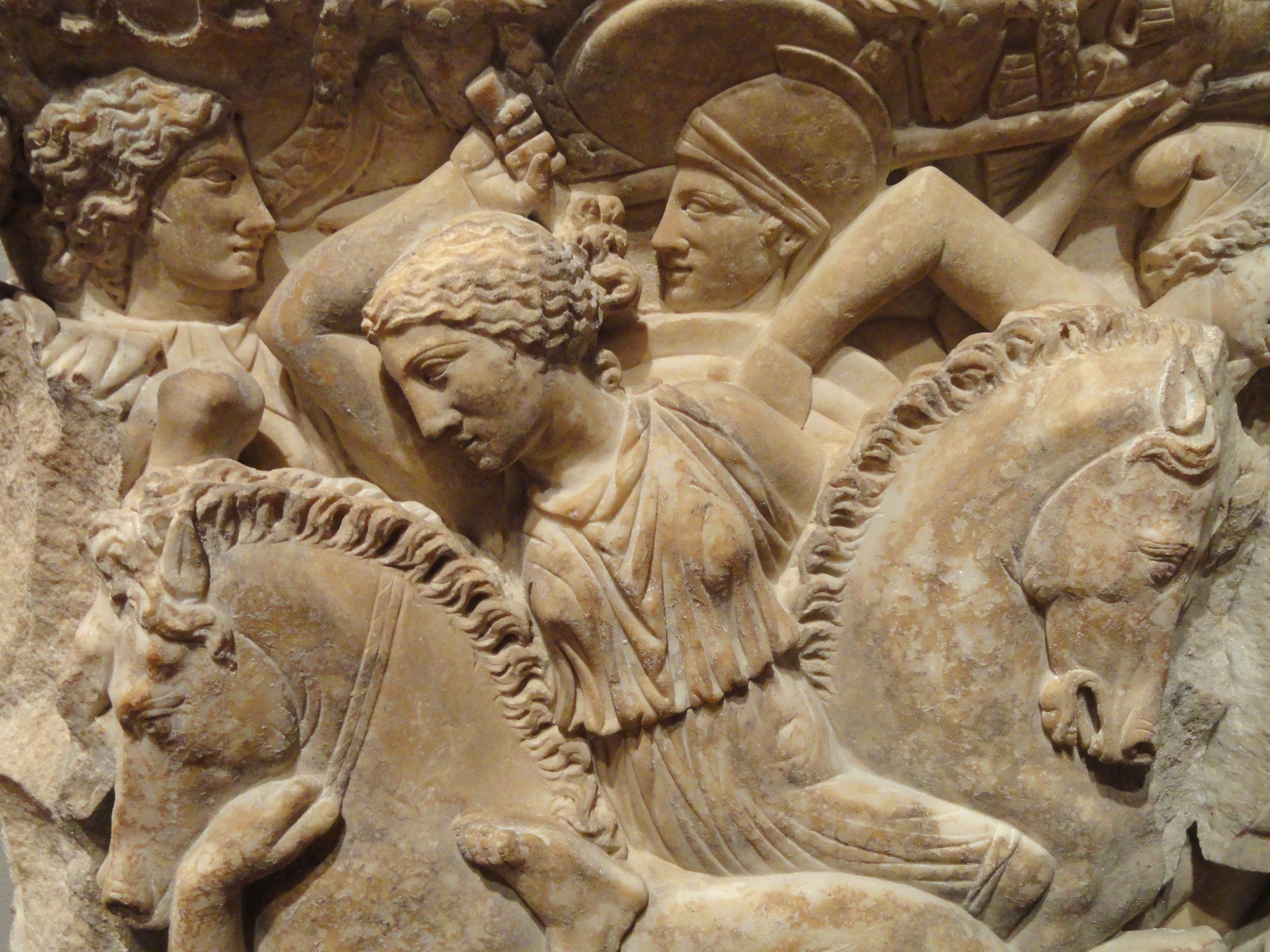 Exhibit in the Sackler Museum, Harvard University, Cambridge, Massachusetts, USA. The museum permitted photography of this artwork without restriction. This artwork is in the public domain because the artist died more than 70 years ago.